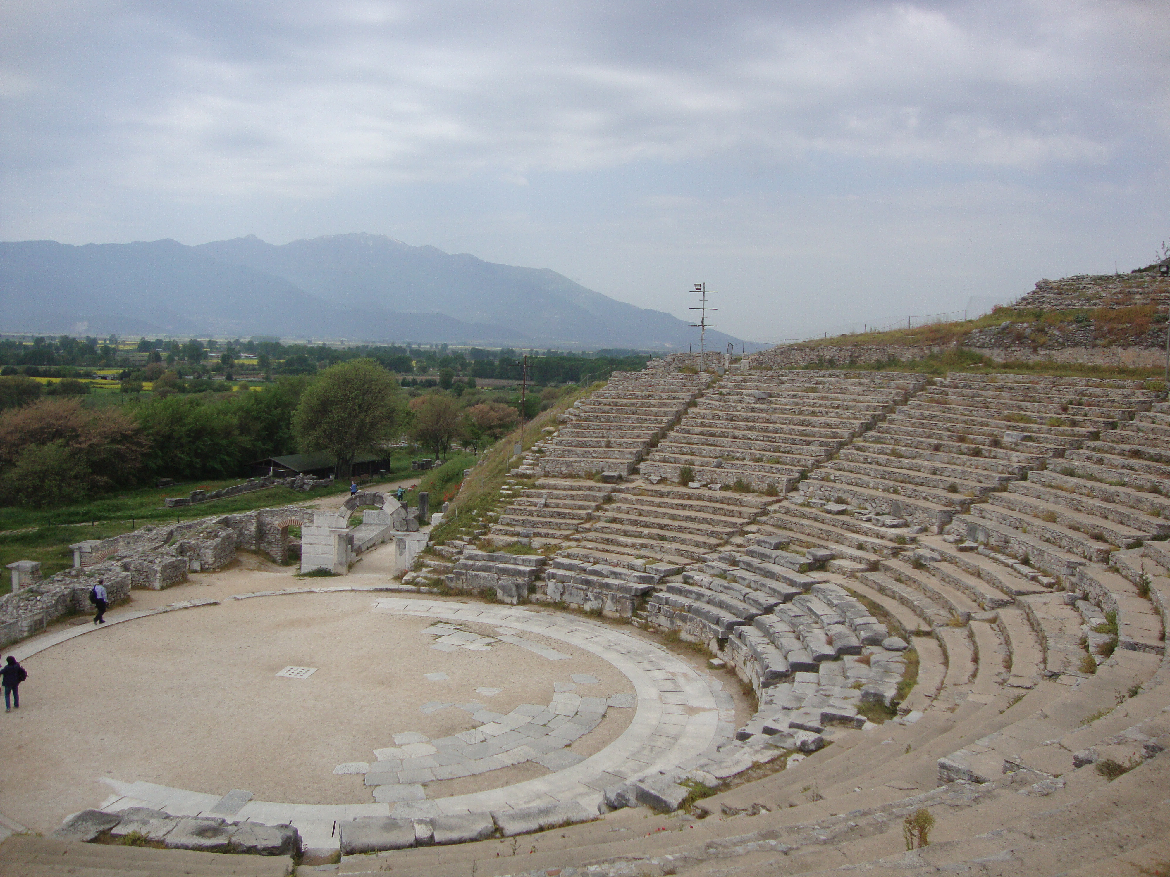 Phillippi, Macedonia, Greece